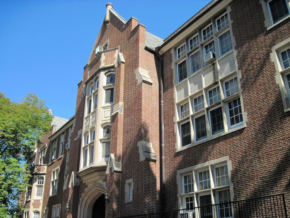 Roemer Hall on the Lindenwood University Campus.